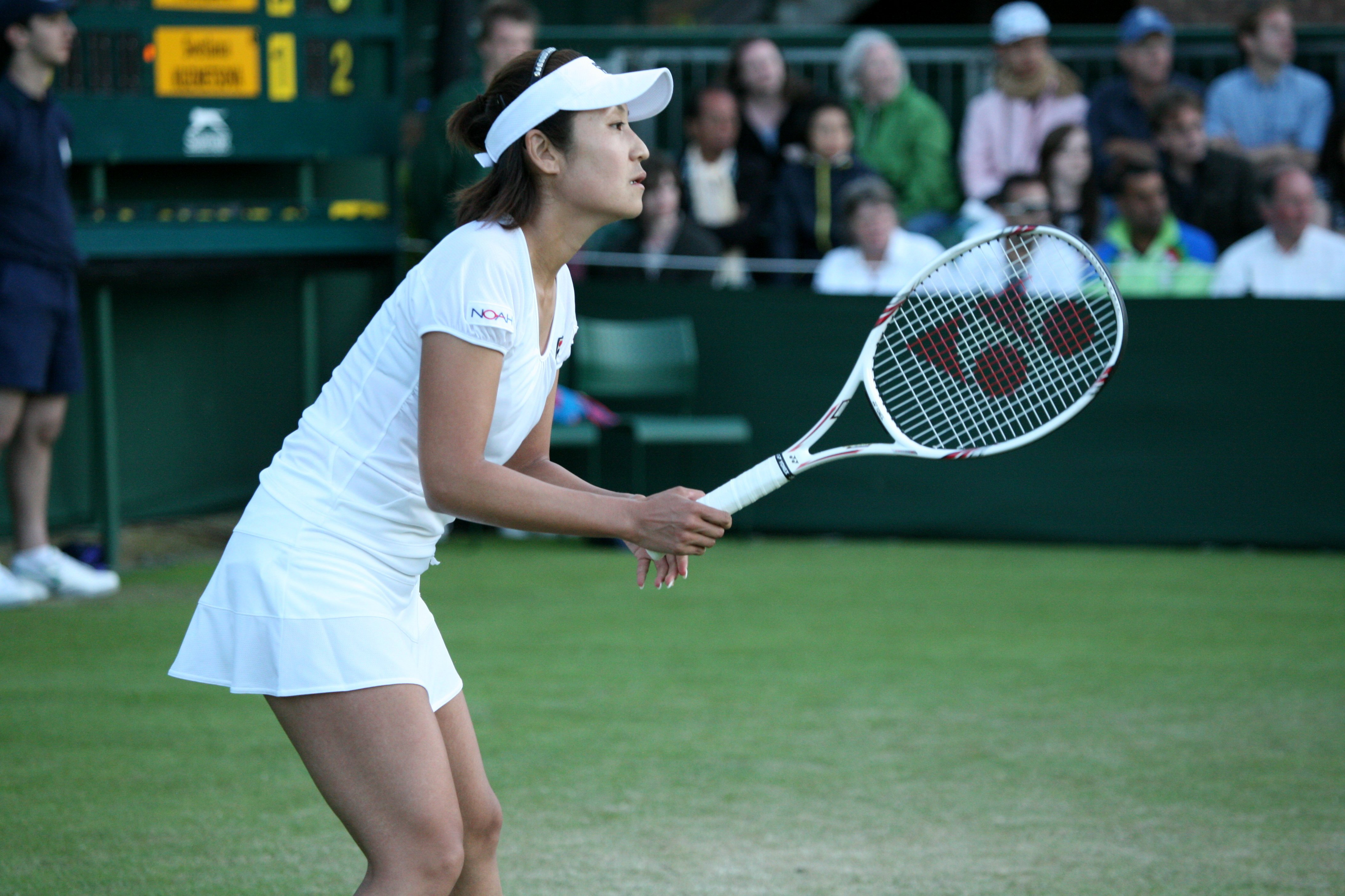 Akiko Morigami against Svetlana Kuznetsova in the 2009 Wimbledon Championships first round